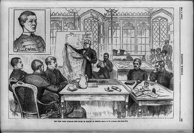 "The West Point outrage - the Court of Inquiry in session [with insert of head and shoulders portrait of Johnson C. Whittaker, a colored cadet who was assaulted]."